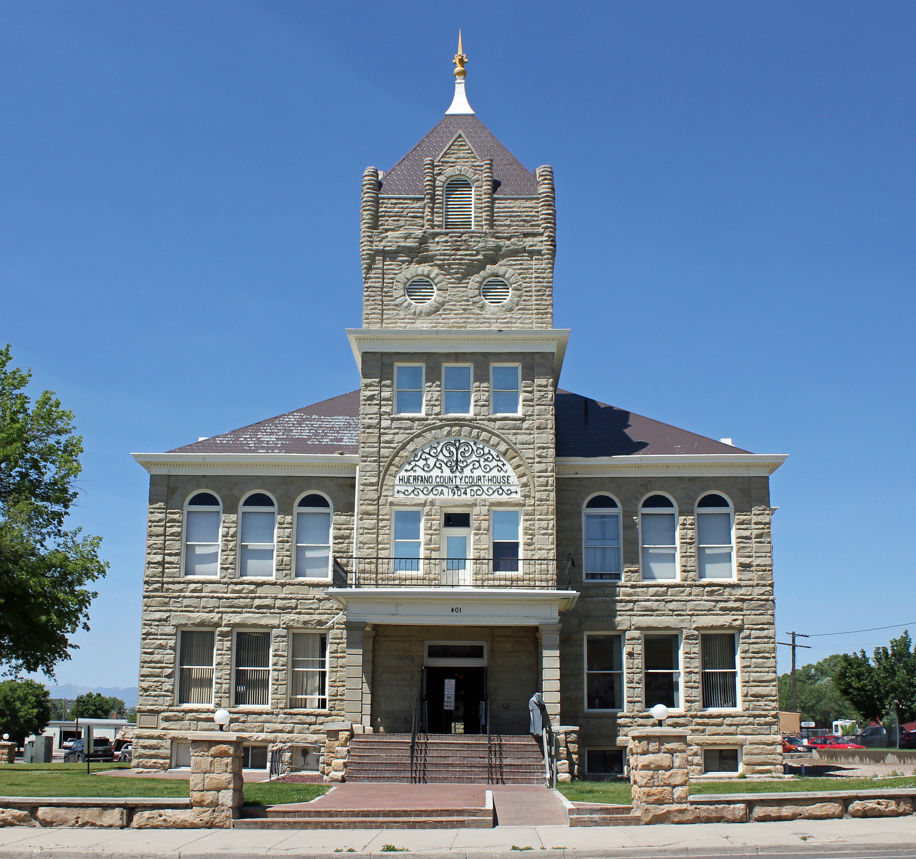 The Huerfano County Courthouse, located at 401 Main Street in Walsenburg, Colorado. Jointly with the 1896 Huerfano County Jail (not visible in this picture), the property is listed on the National Register of Historic Places. A picture of the jail is here.